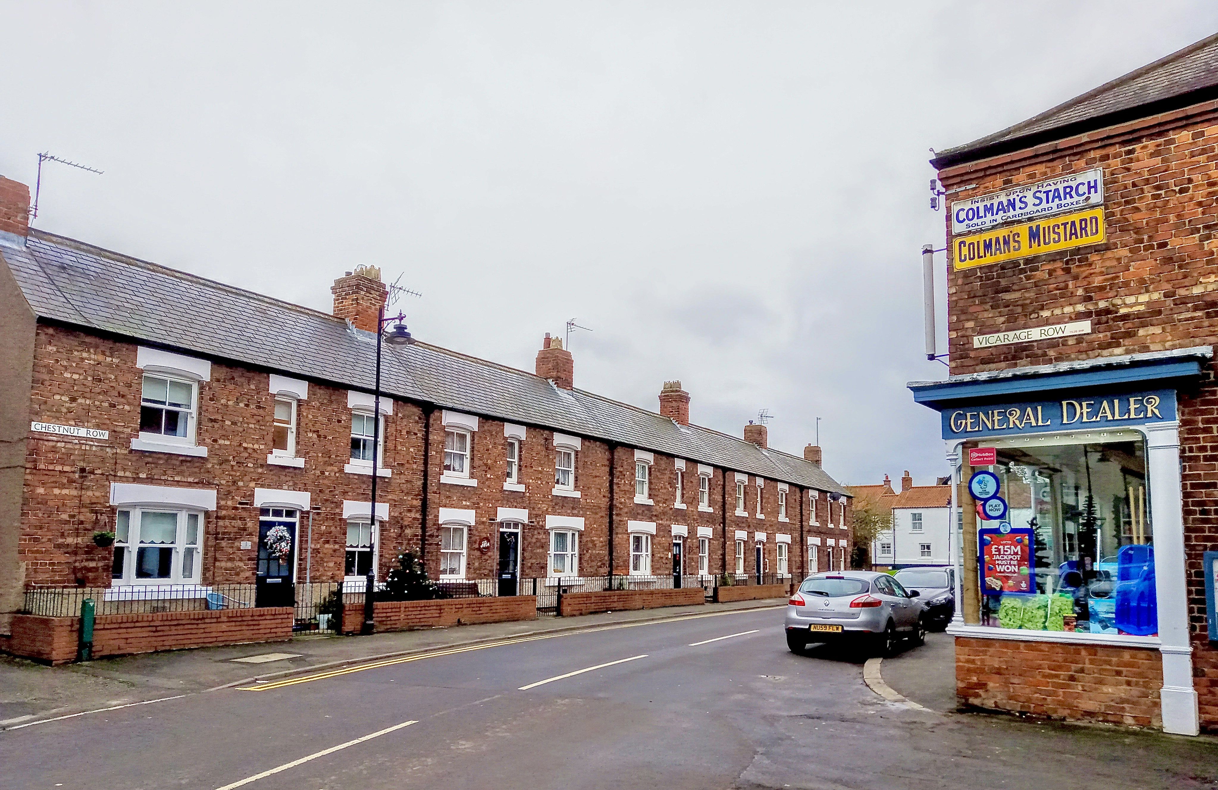 Greatham